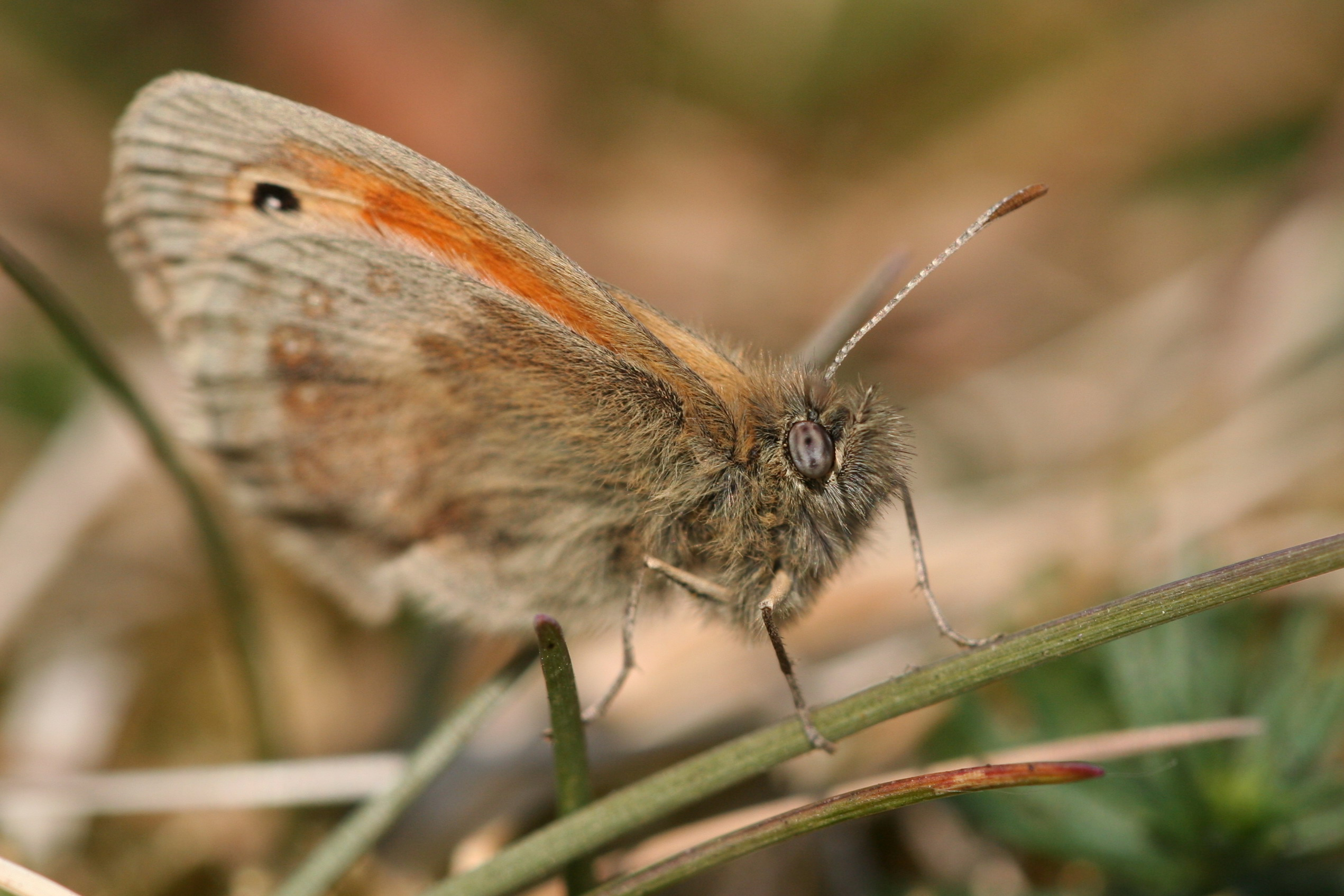 Coenonympha pamphilus